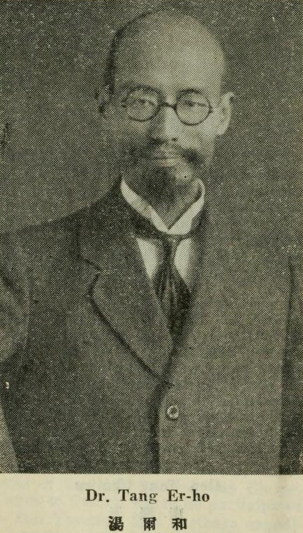 Tang Erhe (1878 - 1940)